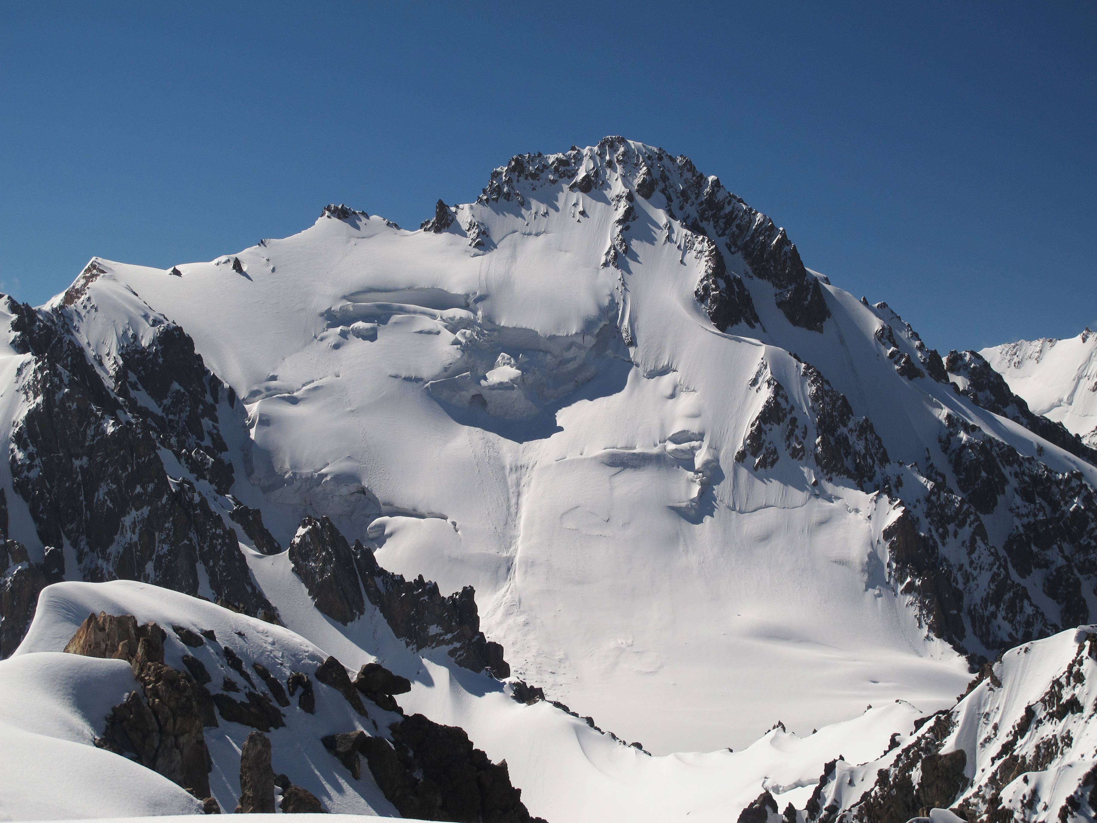 The highest peak of Kyrgyz Ridge, Semenov Tienshanskyi peak, as seen from Uchitel peak in the north-northwest